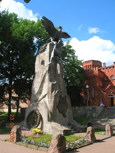 The Eagles Monument in Smolensk (1912), commemorating the centenary of the Russian victory over Napoleon.